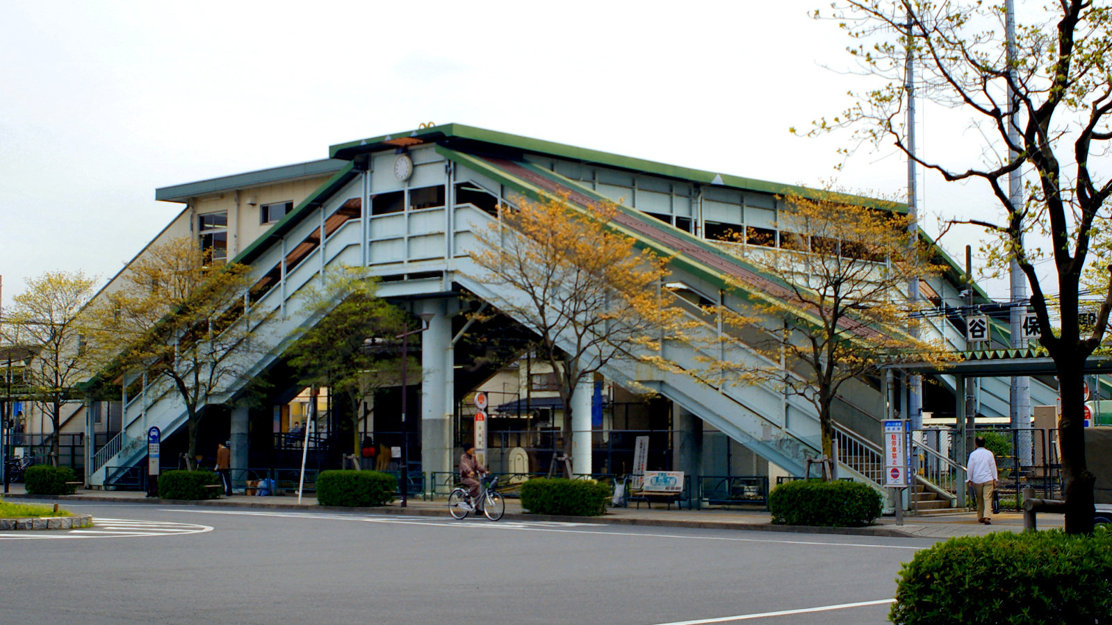 Yaho Station north side